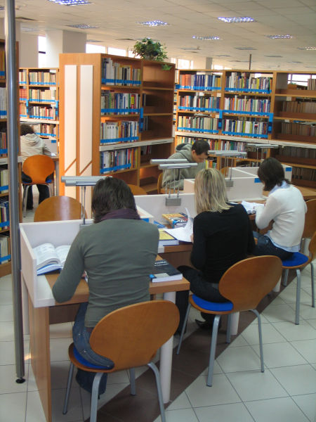 Czytelnia Humanistyczna BUR The Humanism studies reading hall, in Rzeszów University